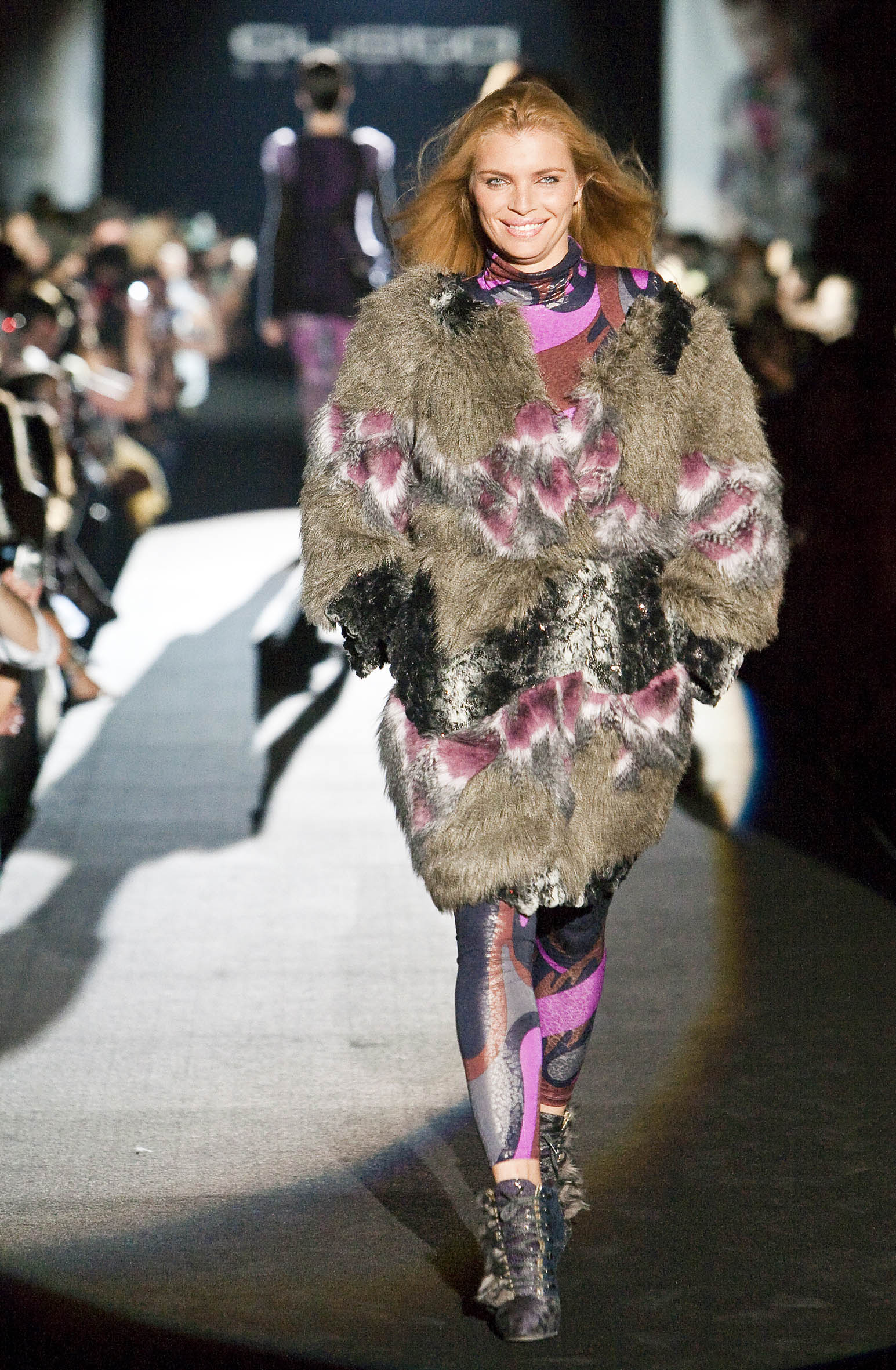 Model Esther Cañadas at The Brandery Summer Edition fashion show 2010, wearing a dress of the "Hairy Metal" collection by Custo Barcelona